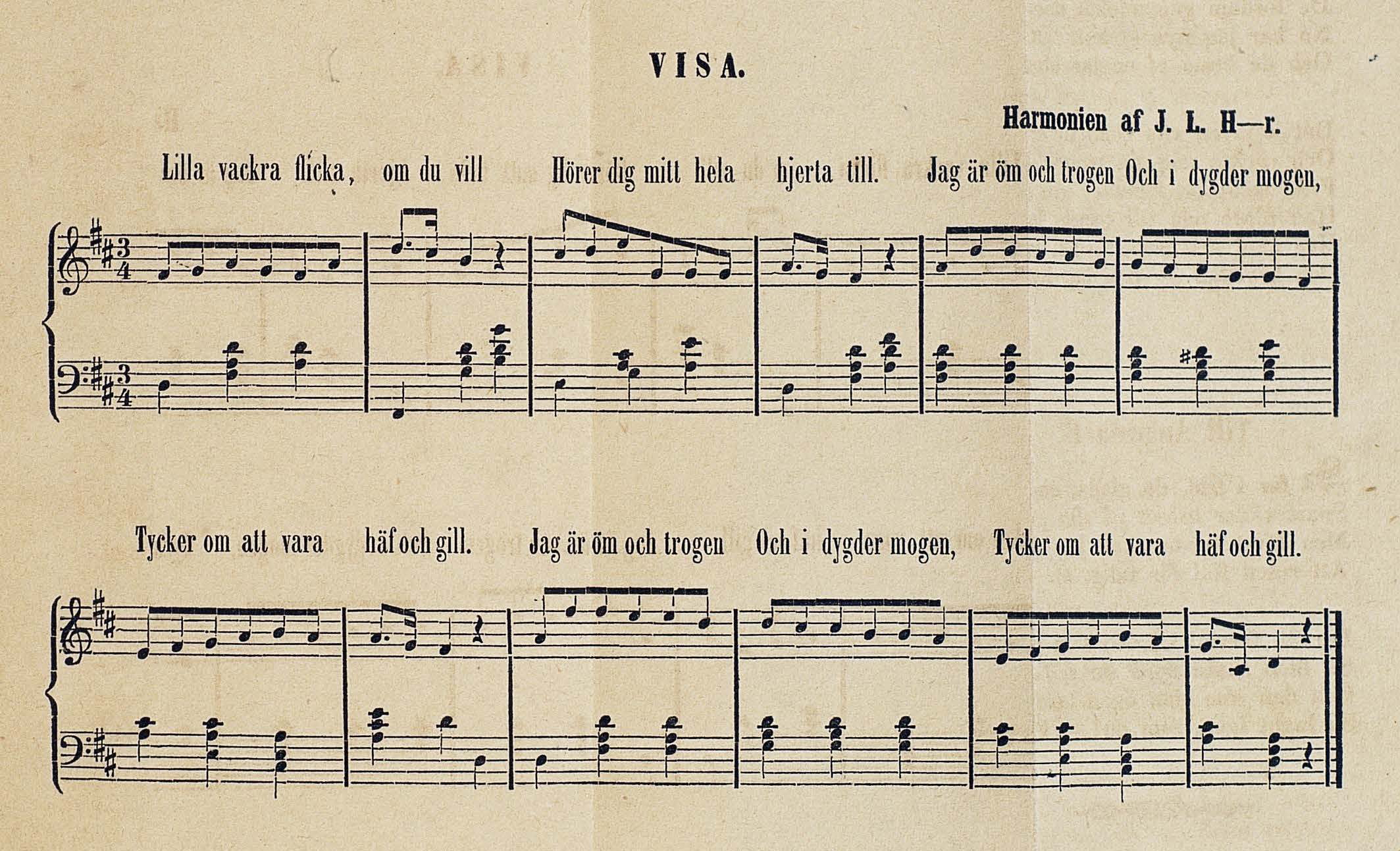 Bengt Henrik Alstermark: "Lilla vackra flicka". Music from Alstermark, Bengt Henrik: "Dikter"